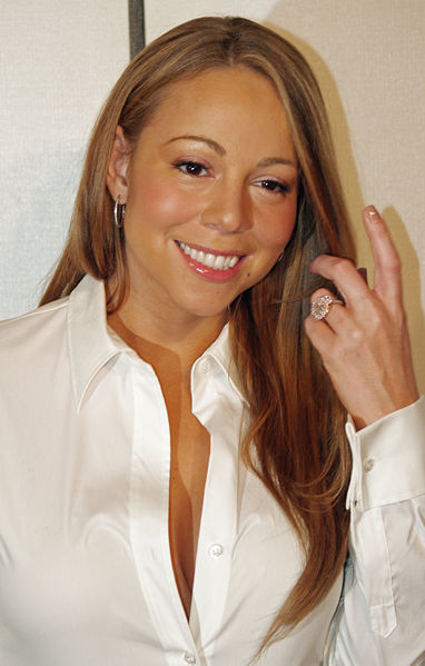 Mariah Carey at the 2008 Tribeca Film Festival for the premiere of Tennessee. I was on the A List of photographers and got up close to her. She was very nice, in a professional way. She didn't talk to the photographers, and her smile was for the cameras - she really gave great shots. I explain what drove my photography and interviews here. This photo is included in my '100 People I Photographed for the Creative Commons' set of my favorites shots out of the thousands of people I have photographed. (About David Shankbone)